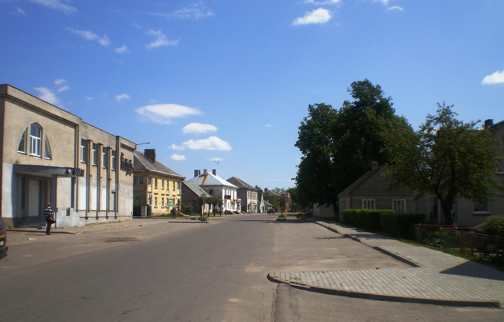 The center of the town of Ariogala. Lithuania